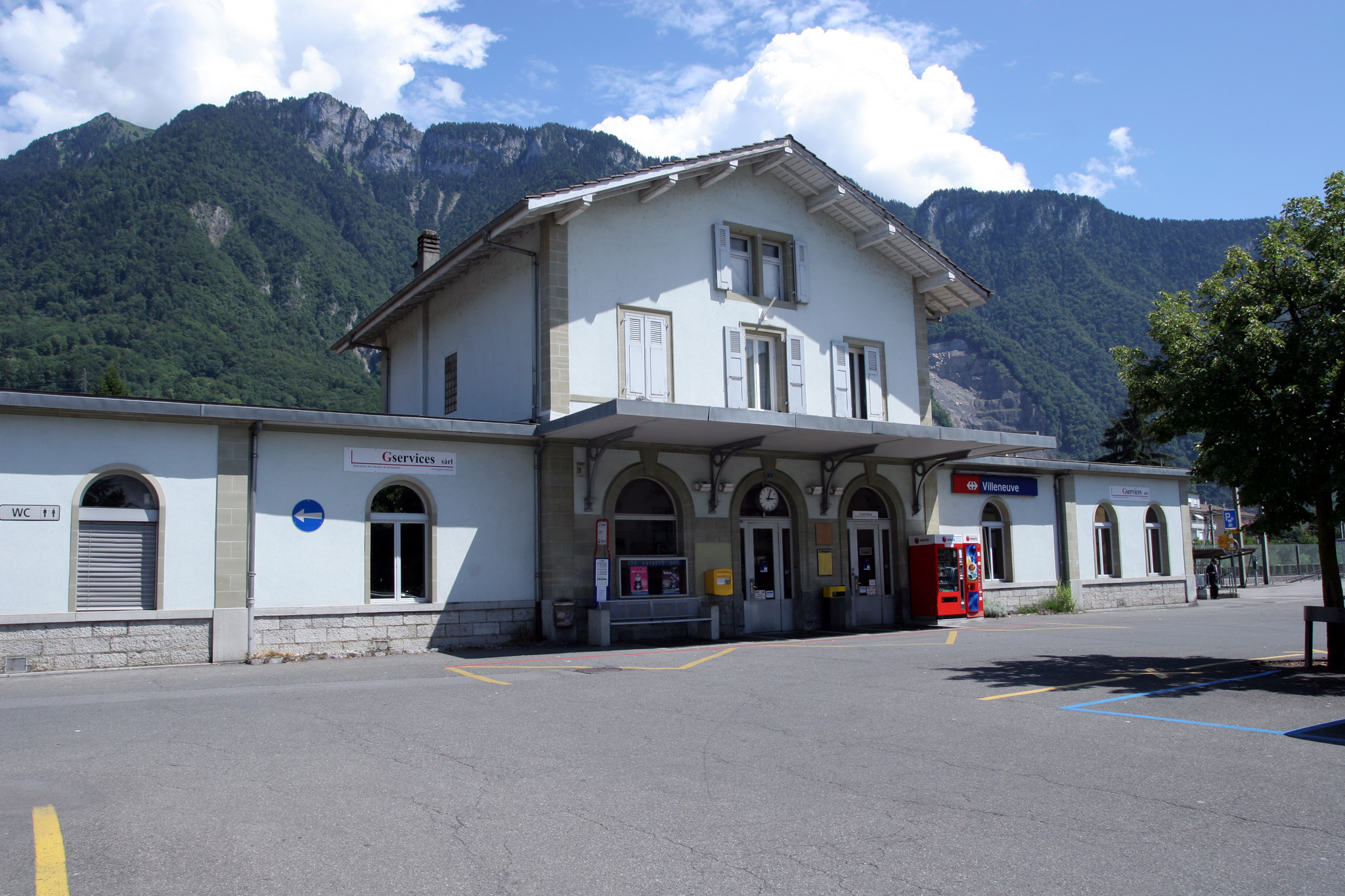 The railway station of Villeneuve VD, Switzerland.